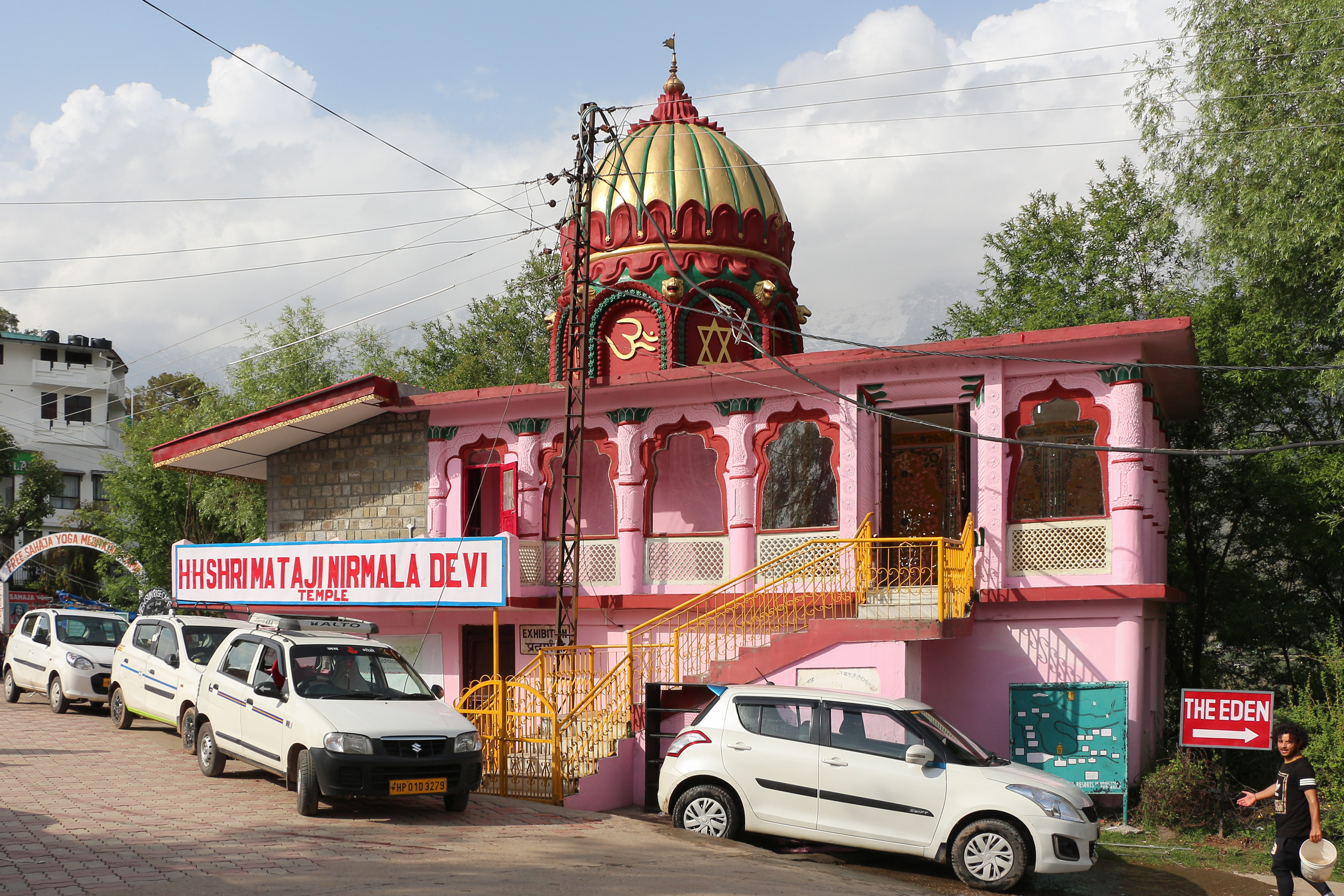 HH Shri Mataji Nirmala Devi temple, Naddi Village, Himachal Pradesh, India